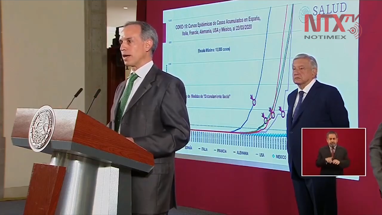 Image of the press conference of the declaration of Phase 2 in contingency by COVID-19. National Palace of Mexico, Mexico.